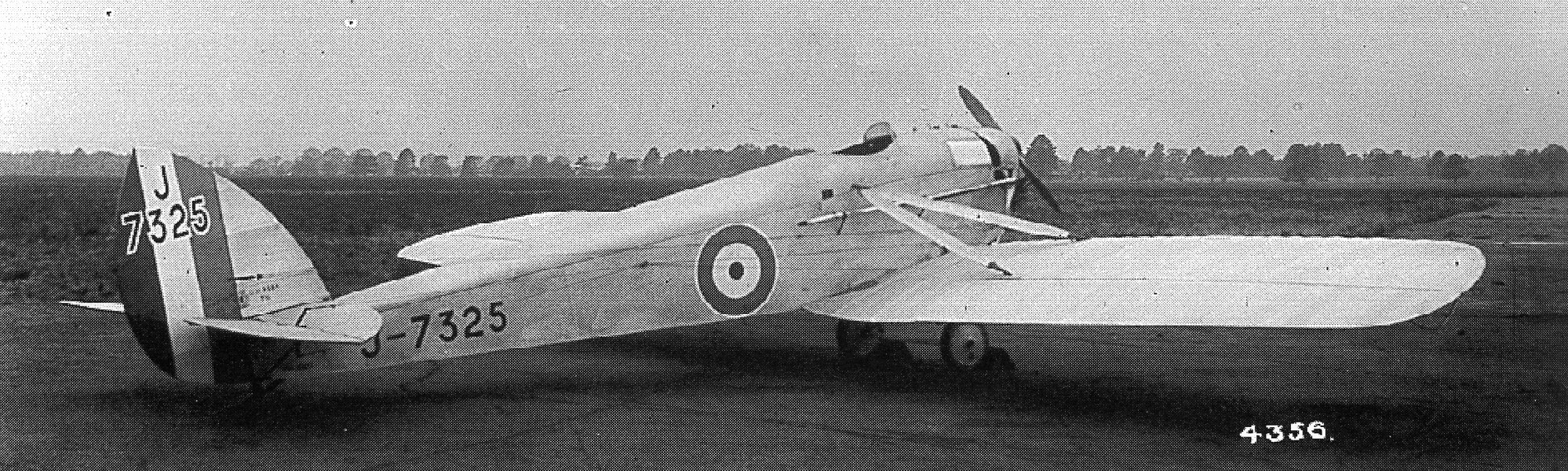 de Havilland DH.536 Humming Bird K7325, 11th aircraft and the first of the two launched from an airship. Blackburne Tomtit engine; later G-EBXM. Image December 1924.